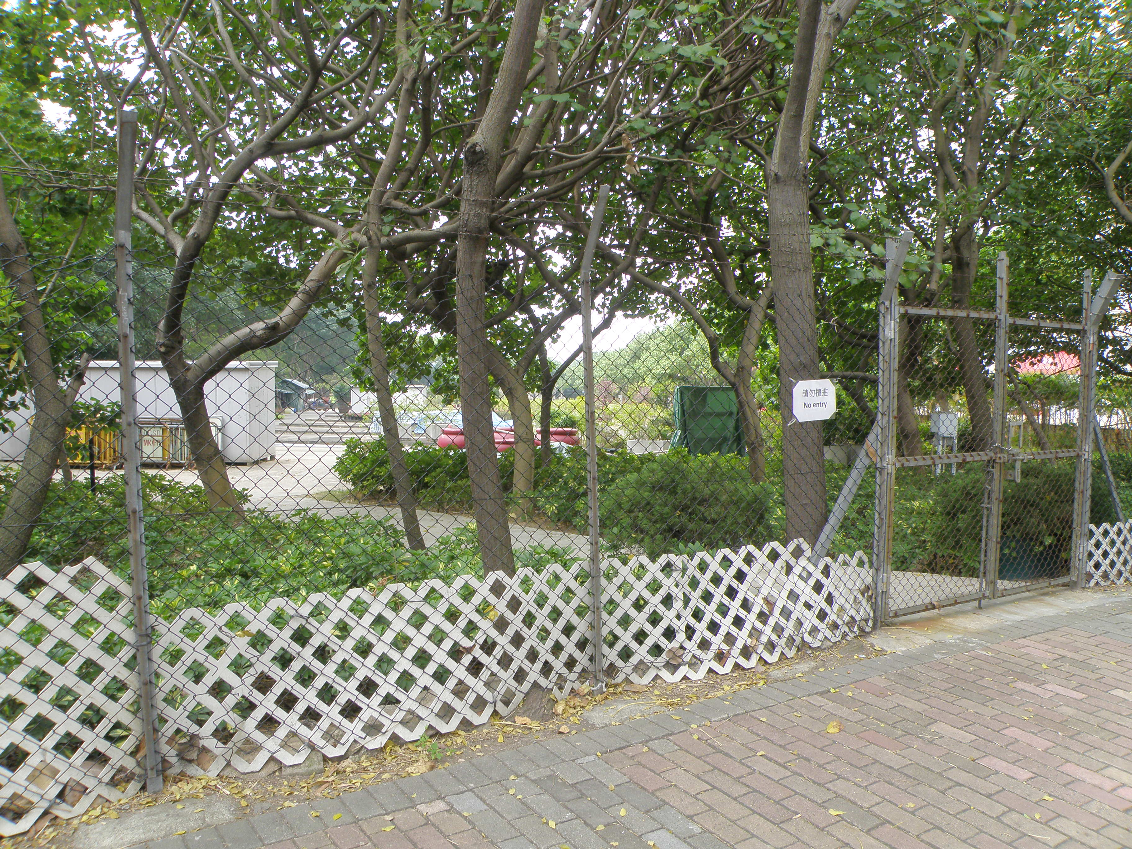 Proposed site of Olympic Park in Tai Kok Tsui, Hong Kong.